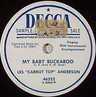 My Baby Buckaroo by Les "Carrot Top" Anderson, Decca 1951.